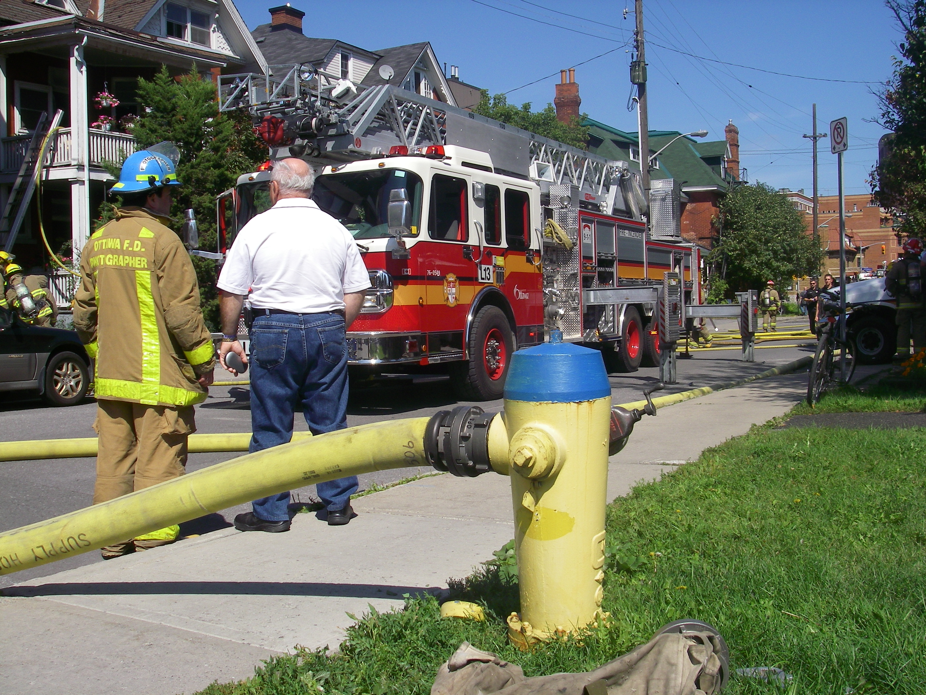 Fire Hydrant in use at a fire on Gilmour St. in Ottawa, 2007-09-02. A Ladder Truck is visible in the background, and a fire department photographer in the middleground.